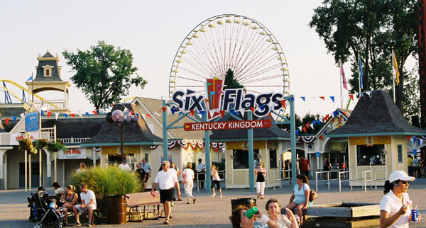 I snapped this photo of Six Flags Kentucky Kingdom.